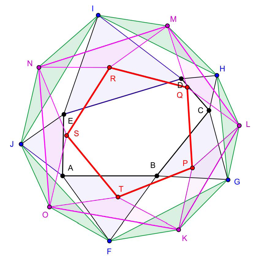 Petr-Douglas-Neumann Theorem for the pentagon (without a legend -adaptable to any language). for the English legend see the original file File:PDN Theorem For Pentagon.svg